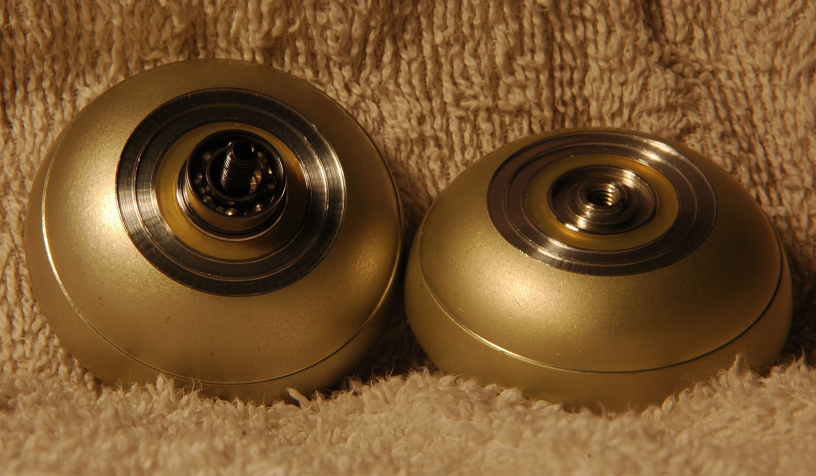 Yo-yo with bearing inside